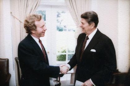 President Ronald Reagan, Joe Lieberman, and John Ashcroft